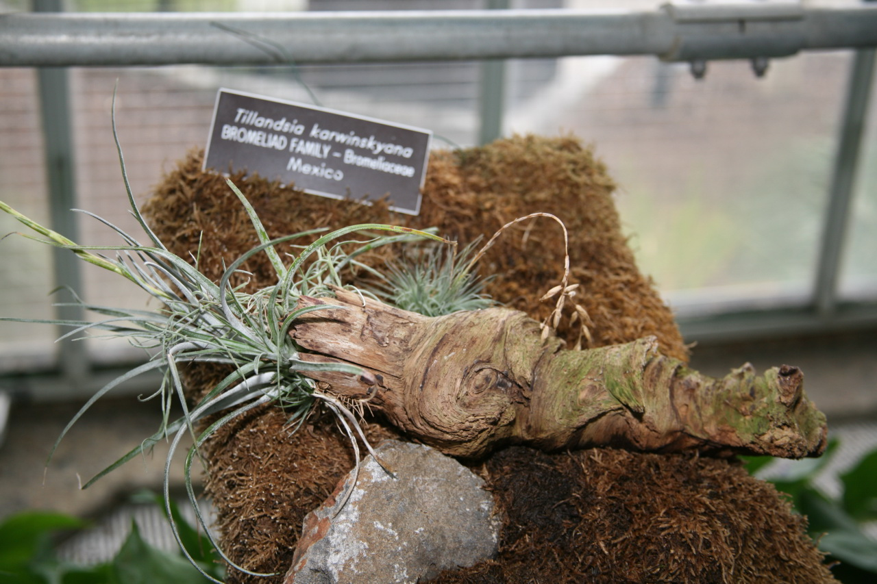 Member of the Bromeliad family - Bromeliaceae